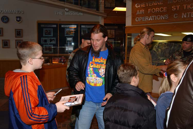 Wrestlers Chris Jericho (left) and Christian Cage (right) signing autographs at Cheyenne Mountain.